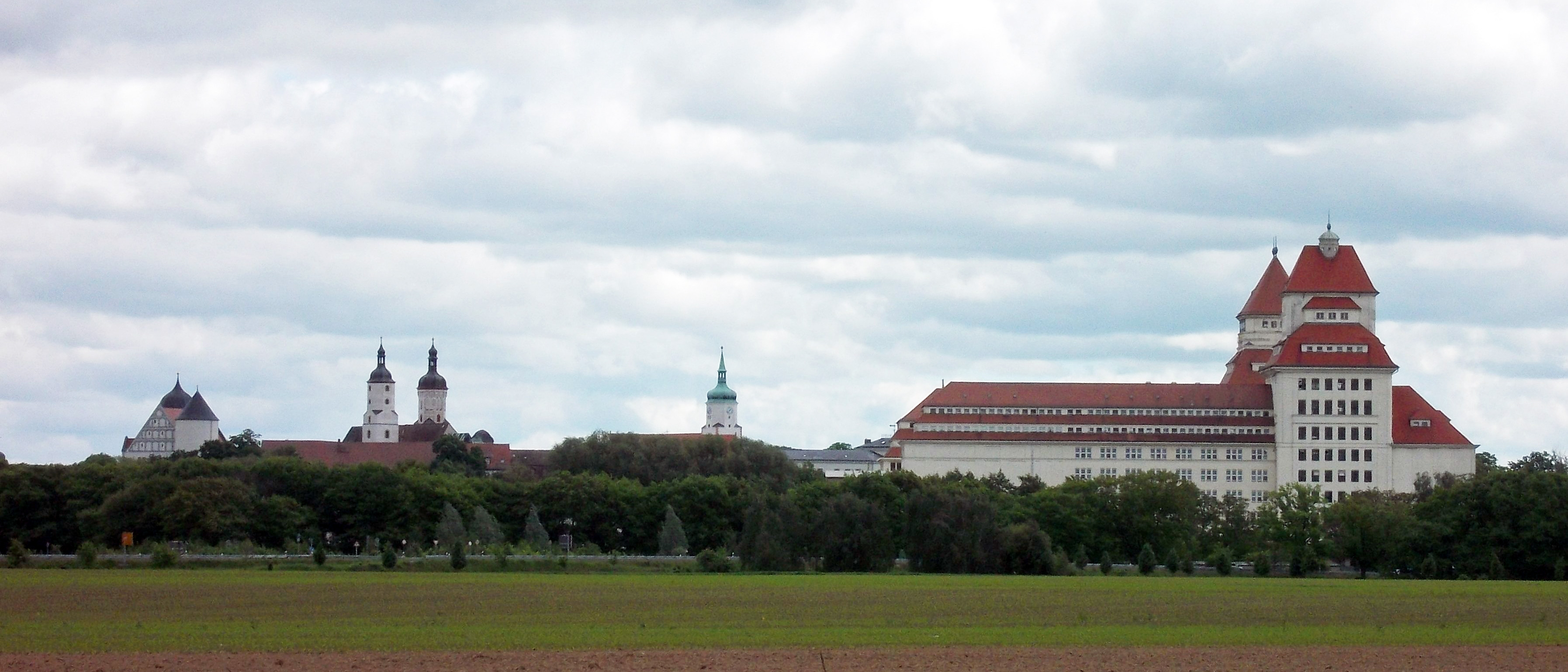 View of Wurzen (Leipzig district, Saxony) from the north-west